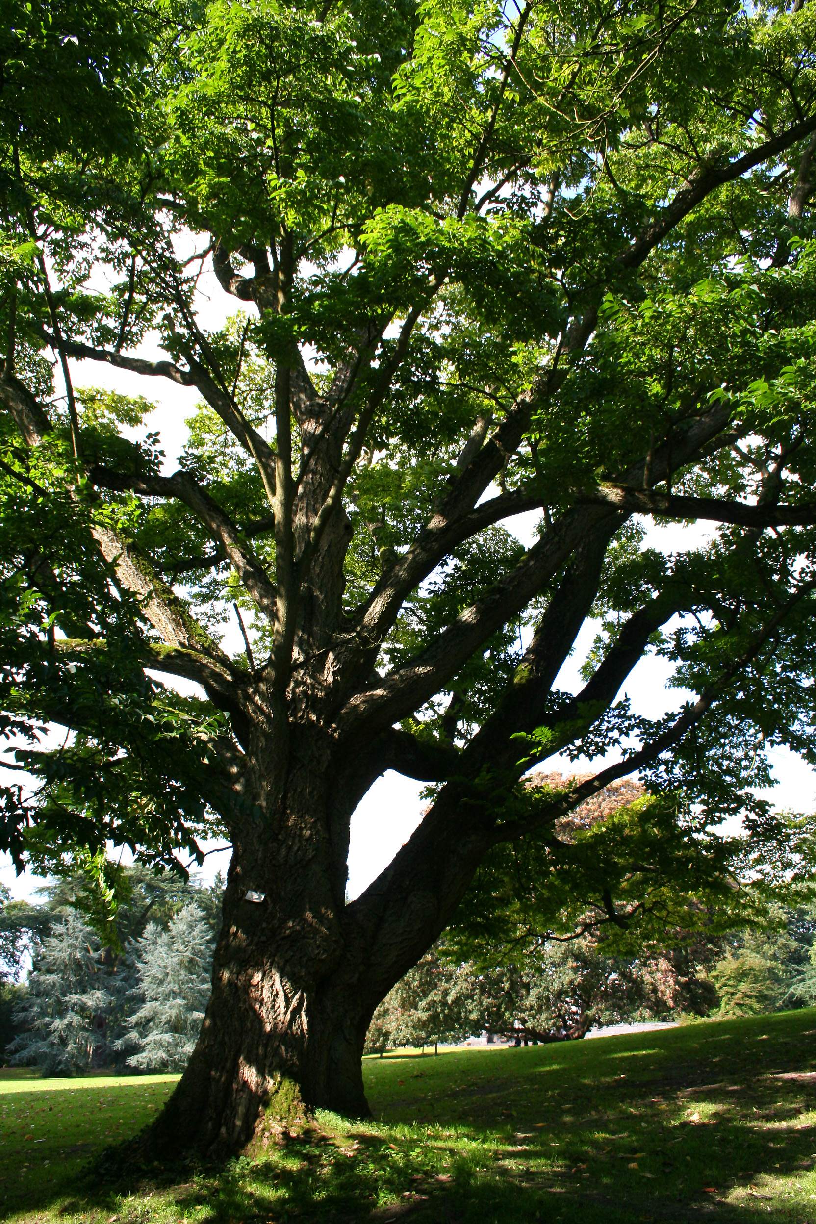 Amur Corktree